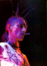 live performance photograph